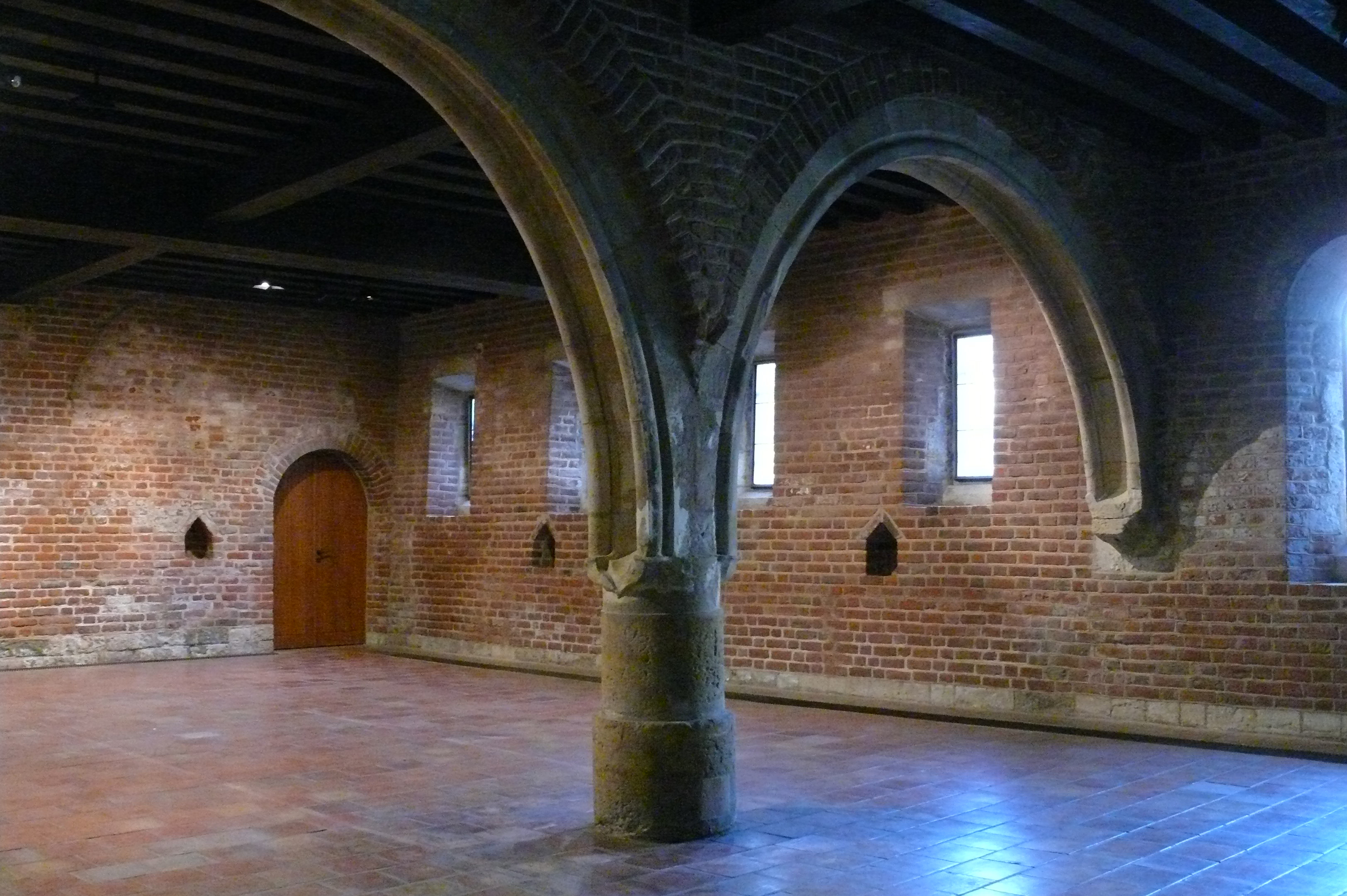 Convent of St Agnes of Bohemia